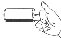 proper way to hold a phonograph cylinder, from insert c. 1900